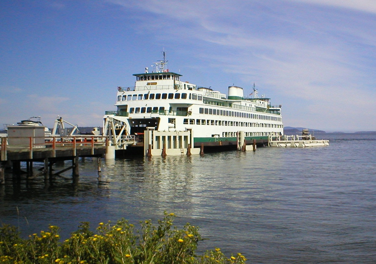 Washington State Ferry Elwha docked at a ferry terminal in Sidney, BC on Vancouver Island